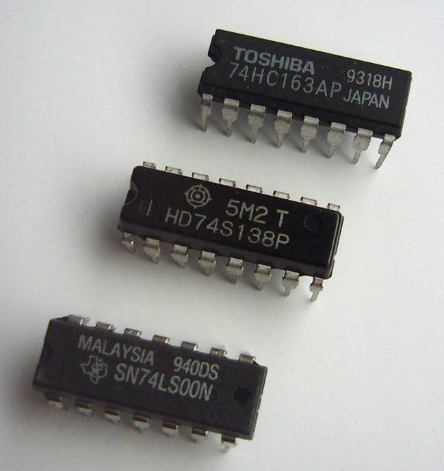 74xx series standard logic ICs (Texas Instruments 74LS00, Hitachi 74S138 and Toshiba 74HC163)